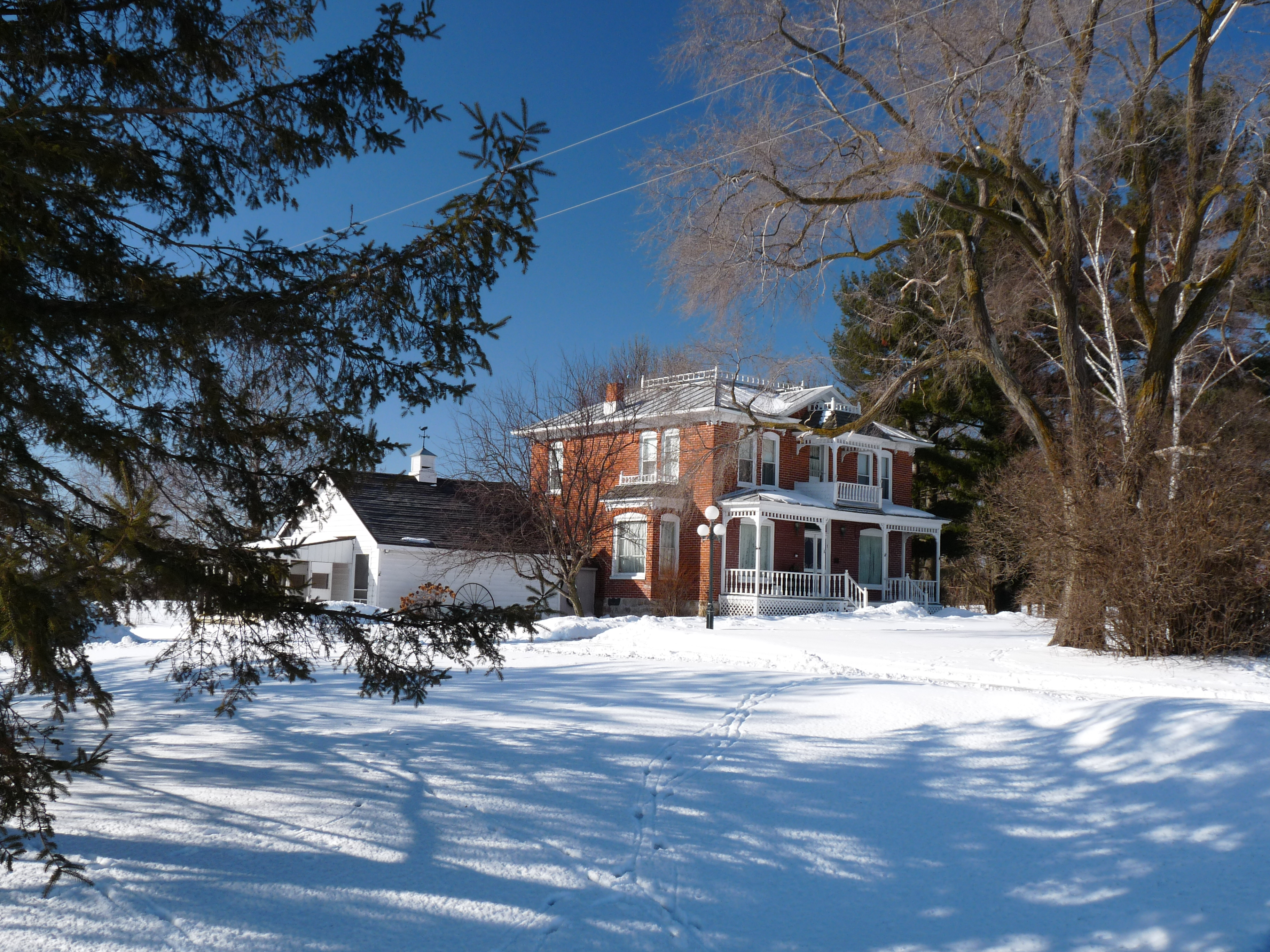 The Charles Foote House is an Italianate farmhouse built in 1878 east of Neillsville, Wisconsin. It is listed on the National Register of Historic Places.